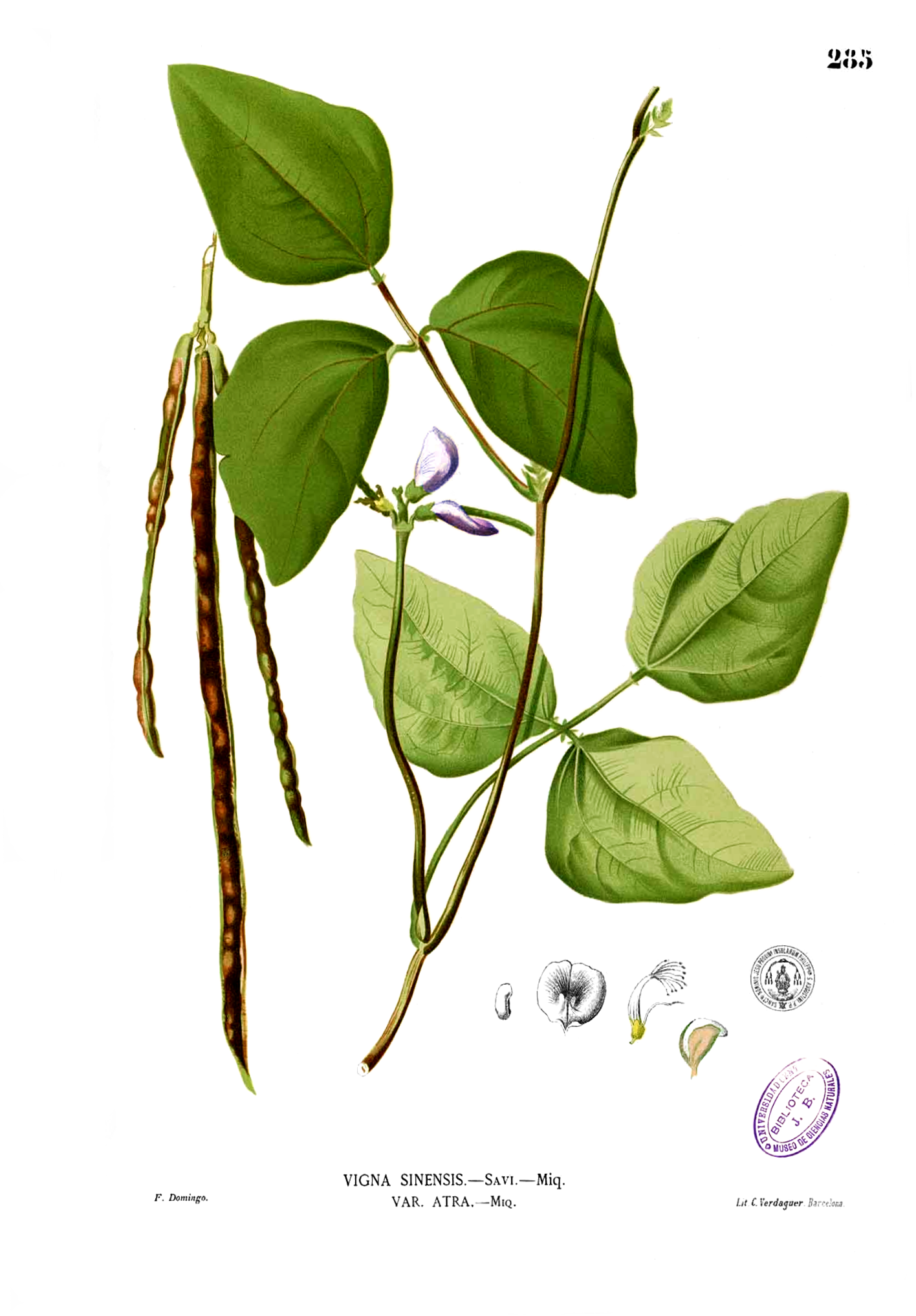 Plate from book